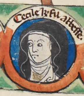 Image of Cecilia of Normandy, who was a Princess of England and Abbess of Holy Trinity.